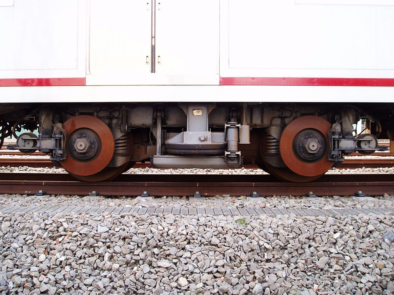 Bogie Truck KH59B1 of EMU Type 7000 operated by Sagami Railway. at Atsugi Sta. 2007.12.17 Photo by Cassiopeia_sweet.